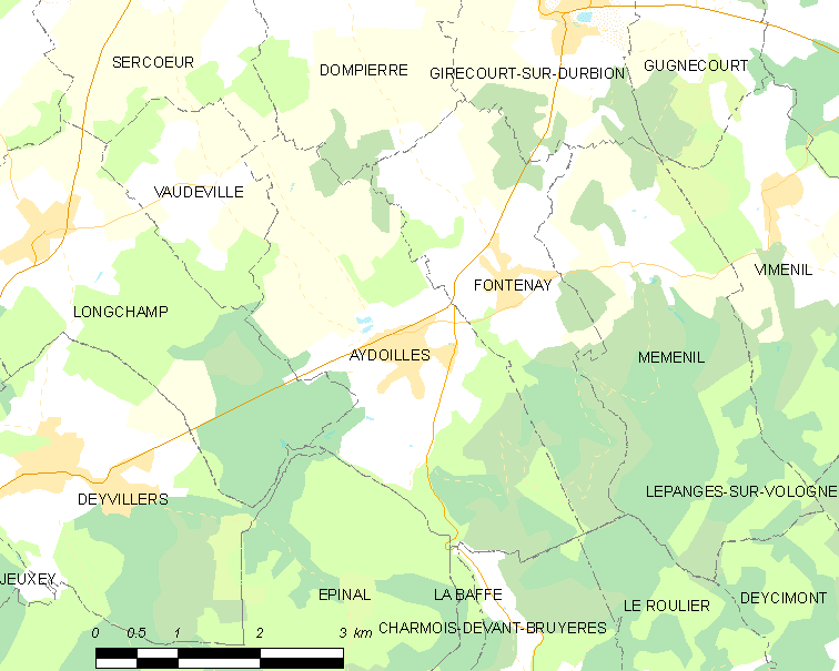 Map of French municipality Aydoilles